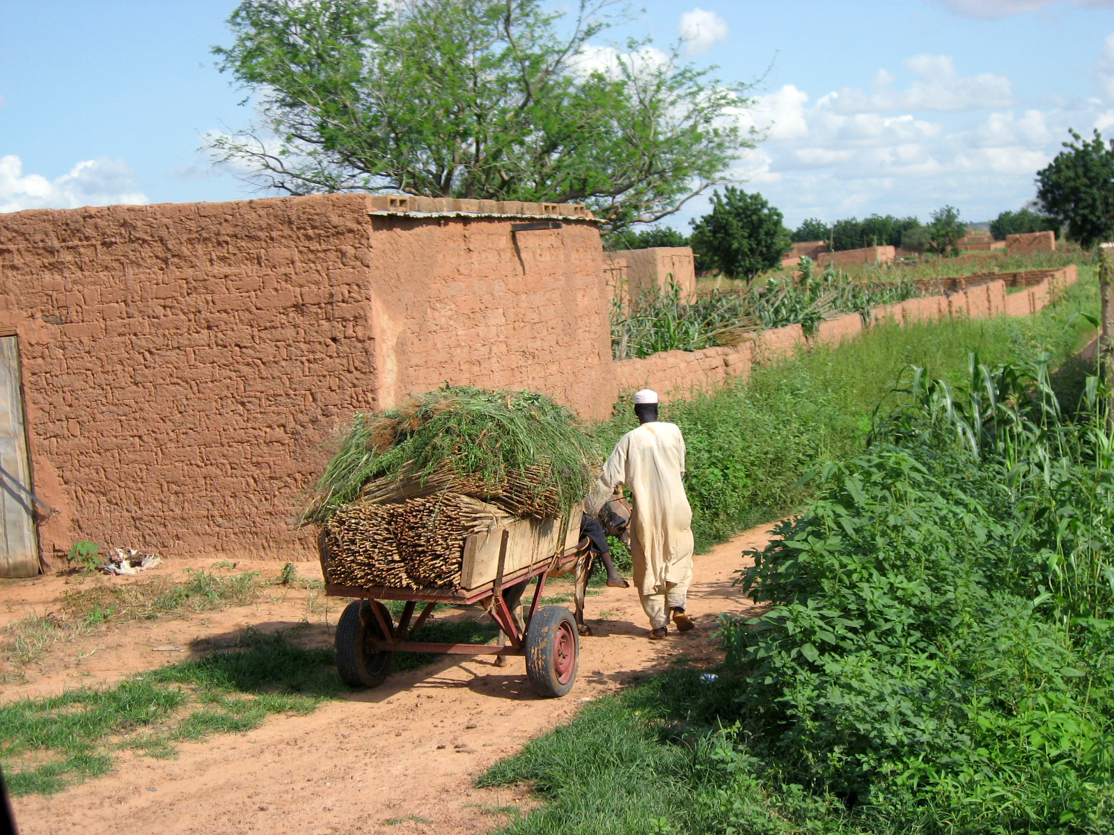 A cart carrying bundles of millet which was recently harvested. Metadata Image Title Millet Harvest File Name IMG_1214.jpg Date/Time 2007-09-10 16:10:21.0 Crop/Other Millet City/Province Koremairwa Country Niger Latitude 13.30 Longitude 3.91 Elevation 754 m